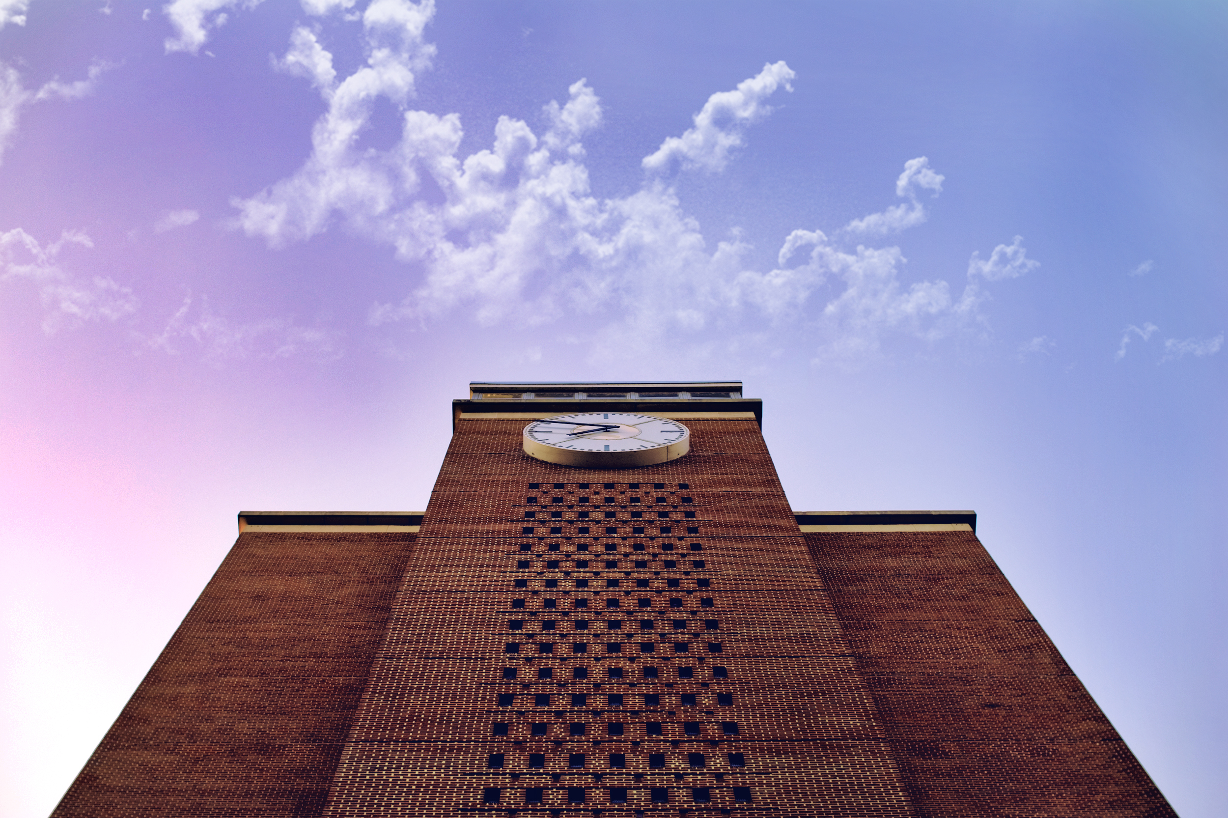 The residence hall (dorm) Muse Hall at Radford University, Virginia, USA